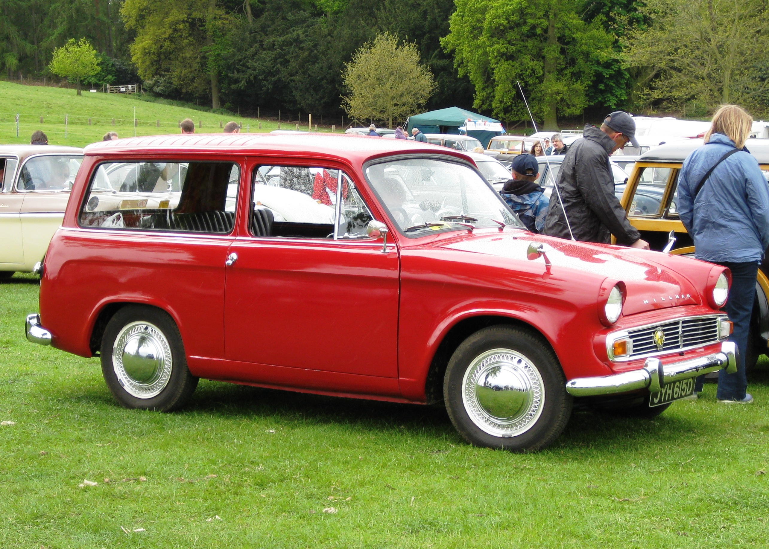 Hillman Husky S3. The last Audax style Hillman Husky.